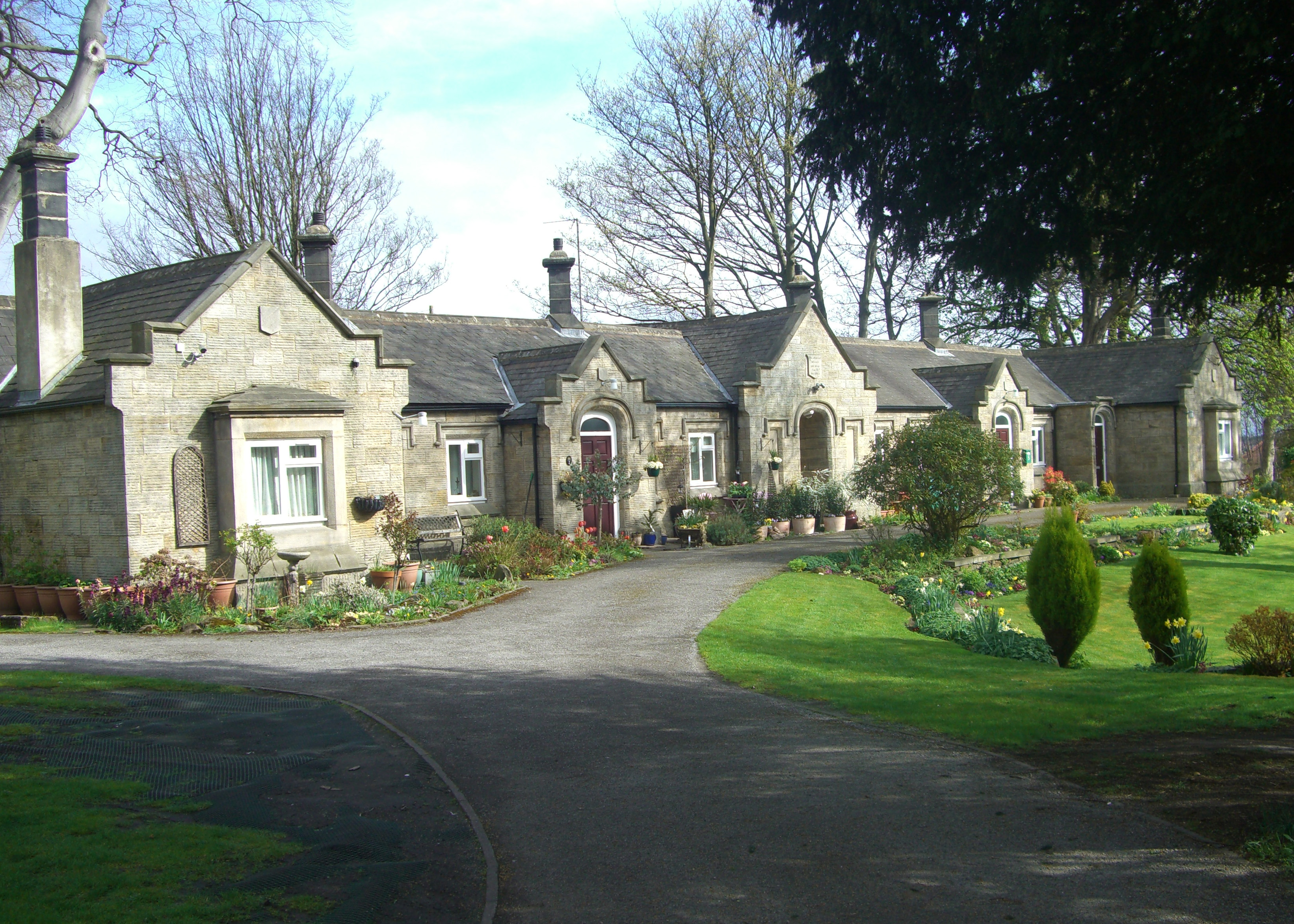 Wadsley Almshouses, a listed building dating from 1839 in the suburb of Wadsley, Sheffield, England